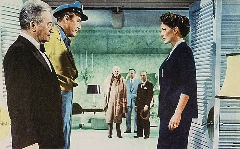 Photo from the film Lisbon. Pictured are Claude Rains, Ray Milland and Maureen O’Hara.